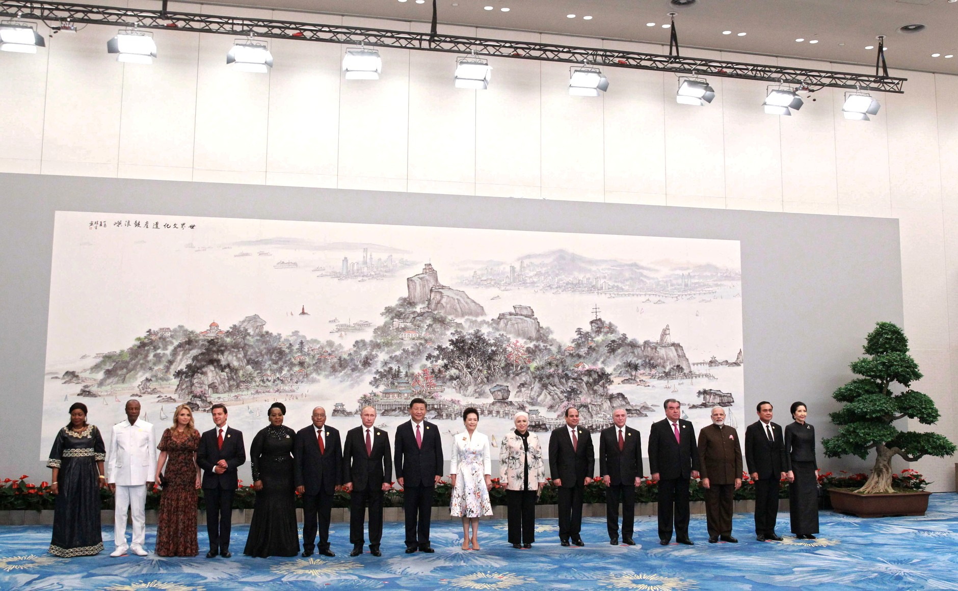 9th BRICS Summit leaders group photo,with President of the host country-the People's Republic of China,Xi Jinping,and the first lady Peng Liyuan,stand in the middle.Other participate BRICS leaders and guest invitees,including Vladimir Putin,Michel Temer,Narendra Modi,Jacob Zuma and Enrique Peña Nieto can be also found in this picture.